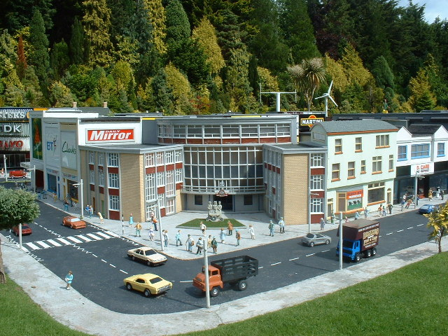 Babbacombe Model Village. Part of the 'town centre' in Babbacombe Model Village